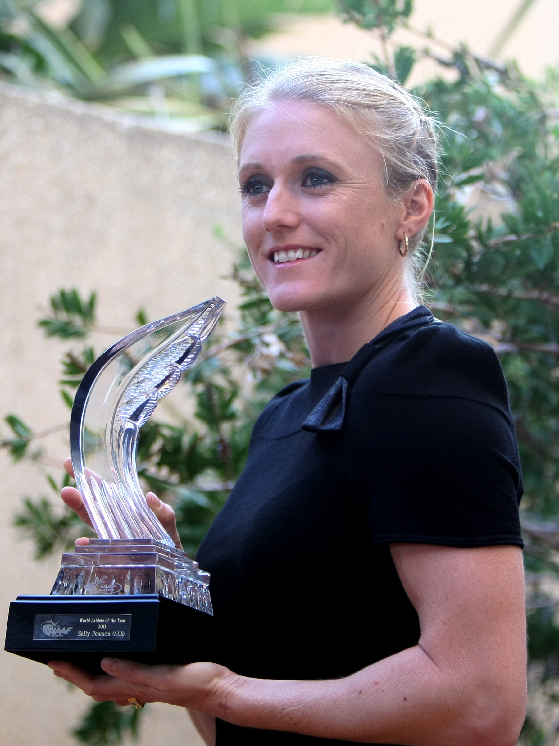 Sally Pearson with the IAAF Woman Athlete of the Year award in Monaco. Pic by Mohan